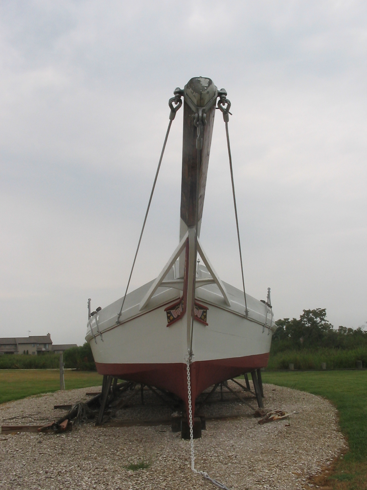 Image taken by me for Wikipedia